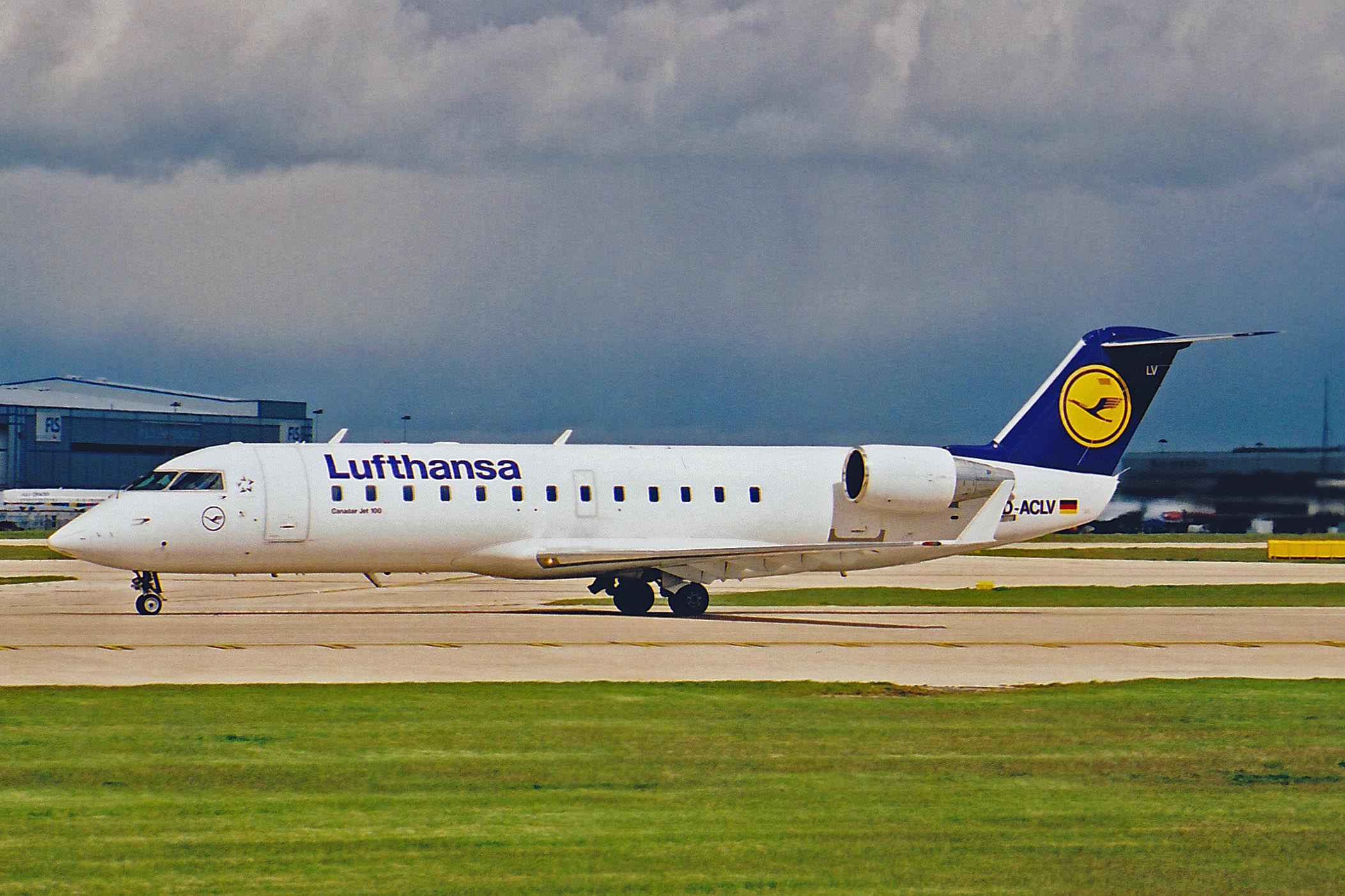 A picture of an airplane (name of it is on the file name).